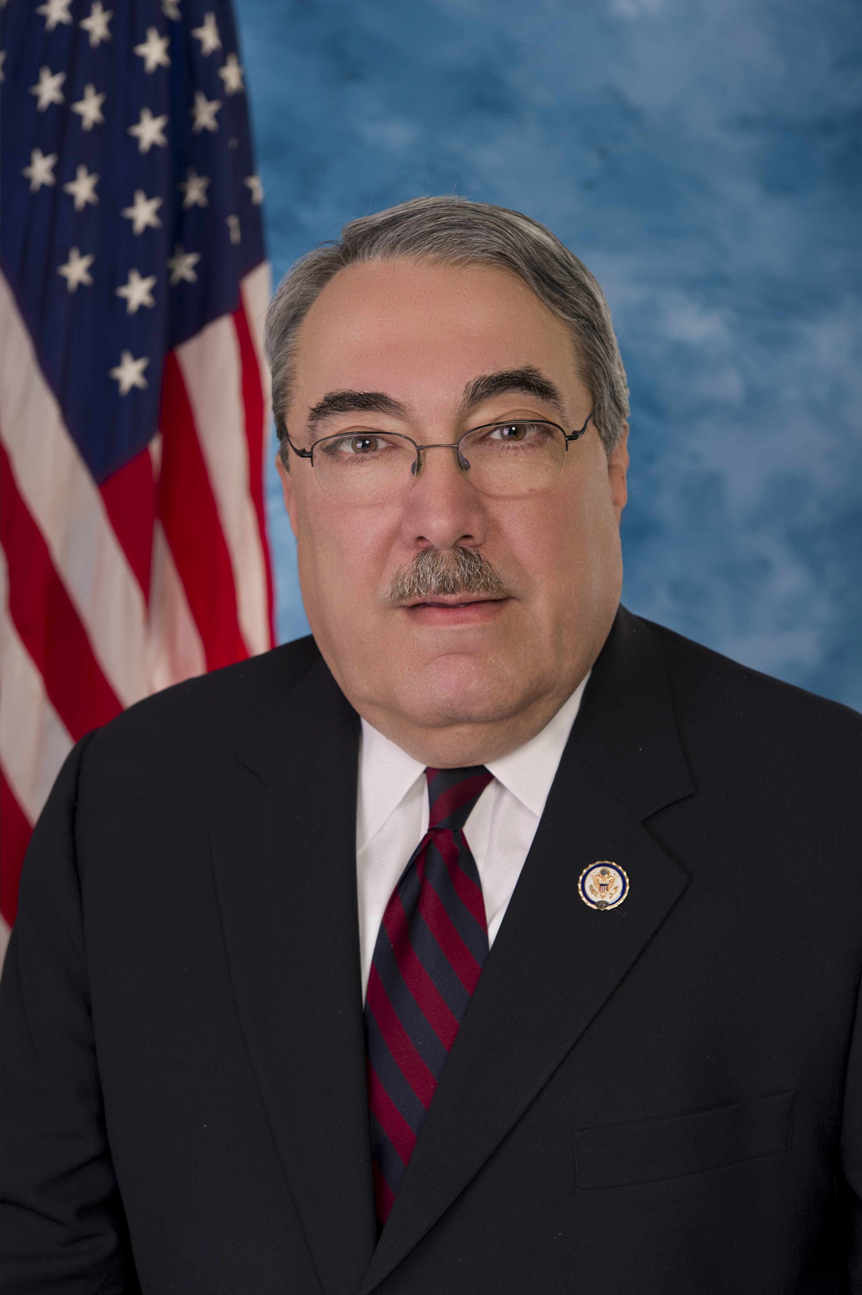 Official portrait of US Representative G. K. Butterfield